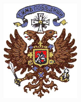 Emblem of the Kolchak government